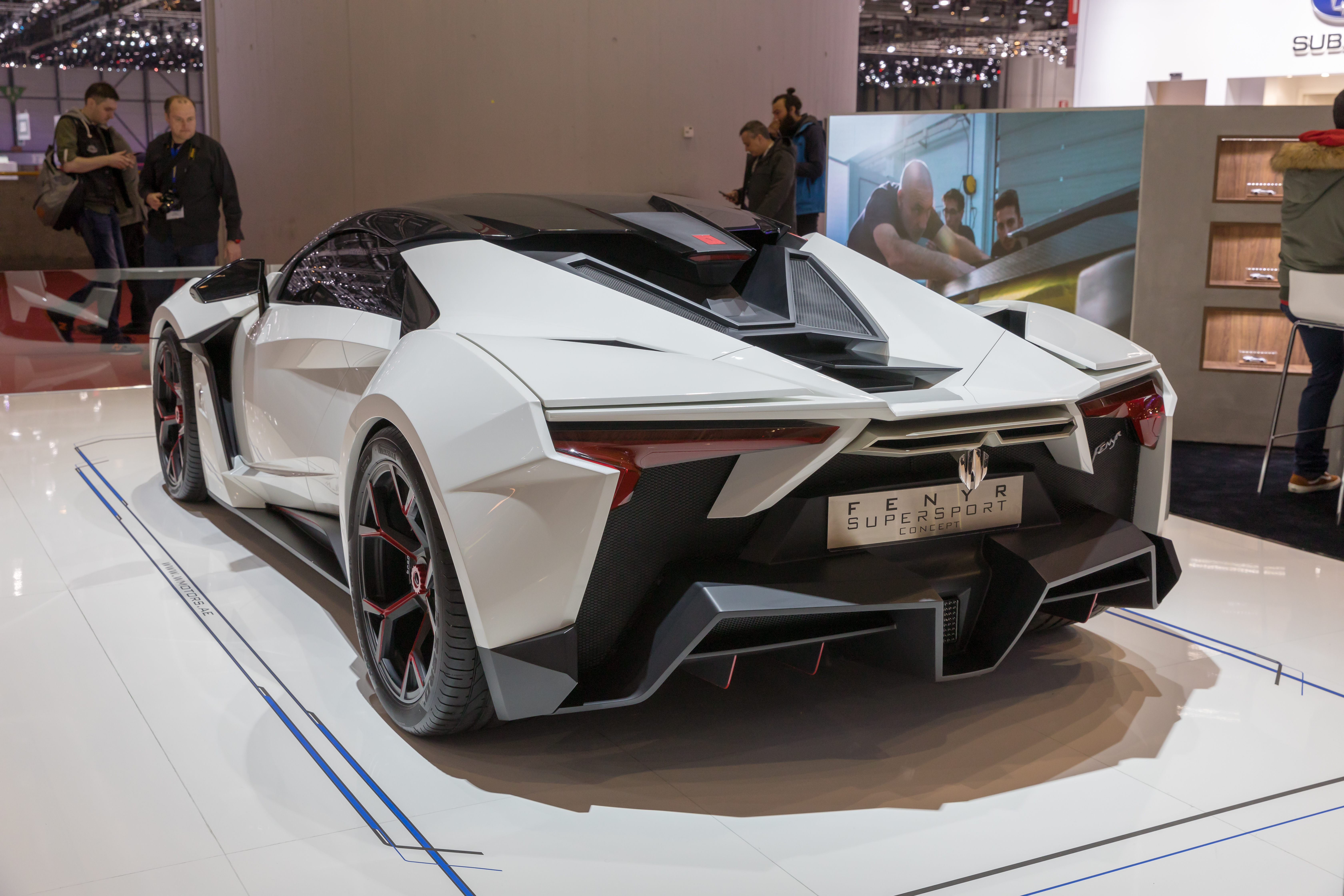 Fenyr Supersport Concept, Geneva International Motor Show 2018